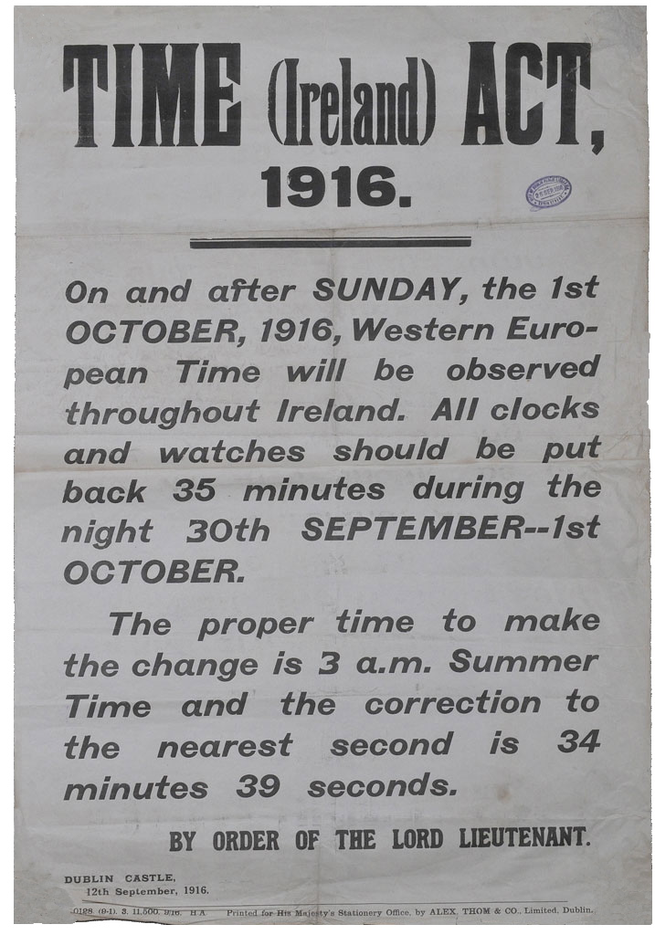 Government notice of TIME (Ireland) ACT, 1916